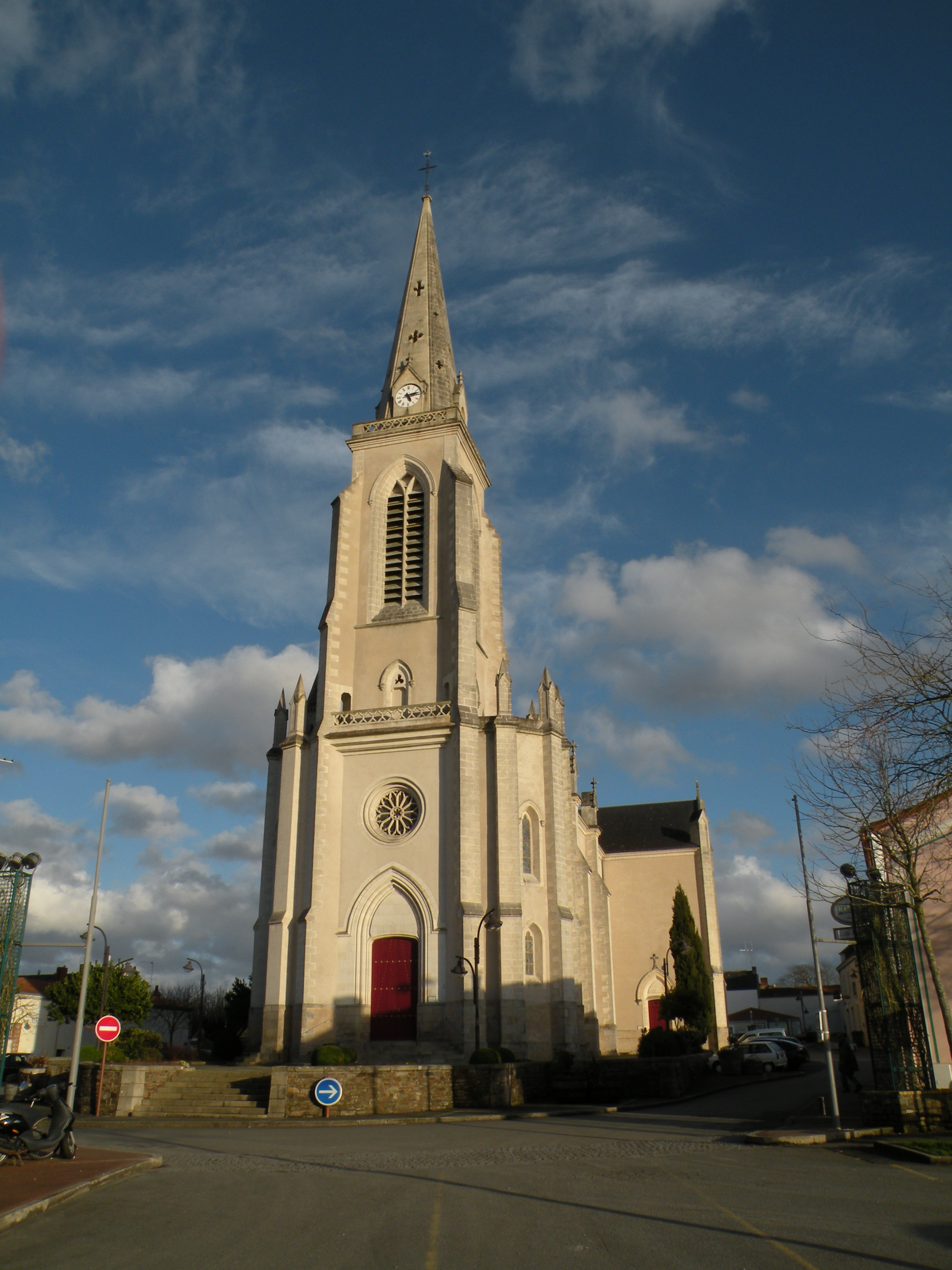 Church of La Haie-Fouassière